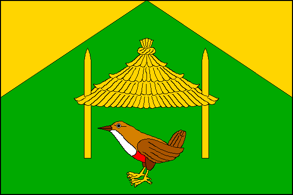 Municipal flag of Skorkov village, Mladá Boleslav District, Czech Republic.